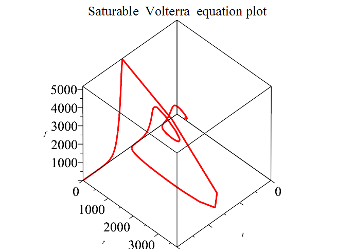 Satuable Volterra Eq 3d plot